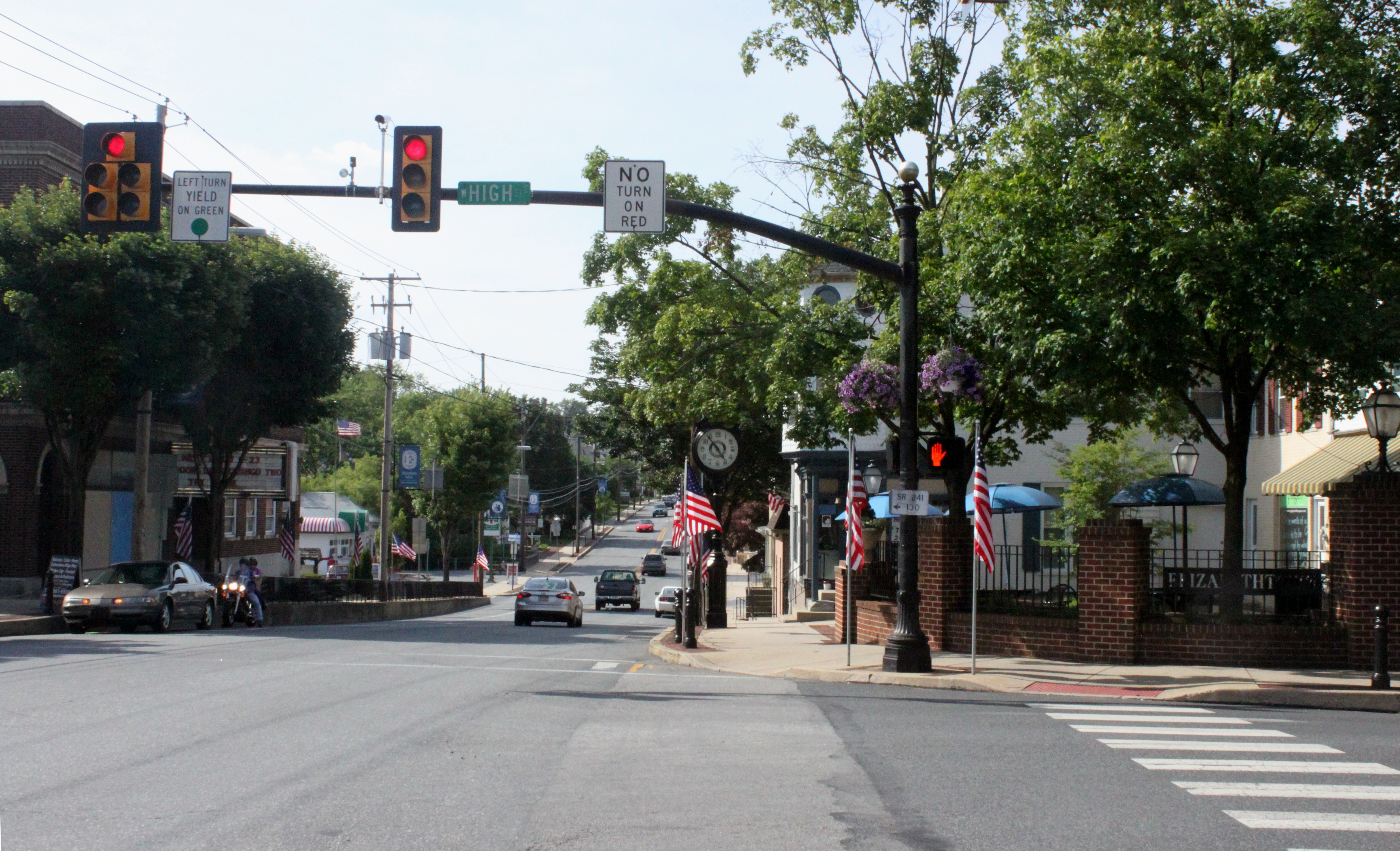 A photo of Center Square (the intersection of High and Market streets) in Elizabethtown, Pennsylvania, U.S.A., as seen on June 15, 2013.